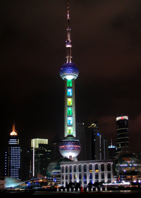 Oriental Pearl Tower at night (by Adam Rusek)